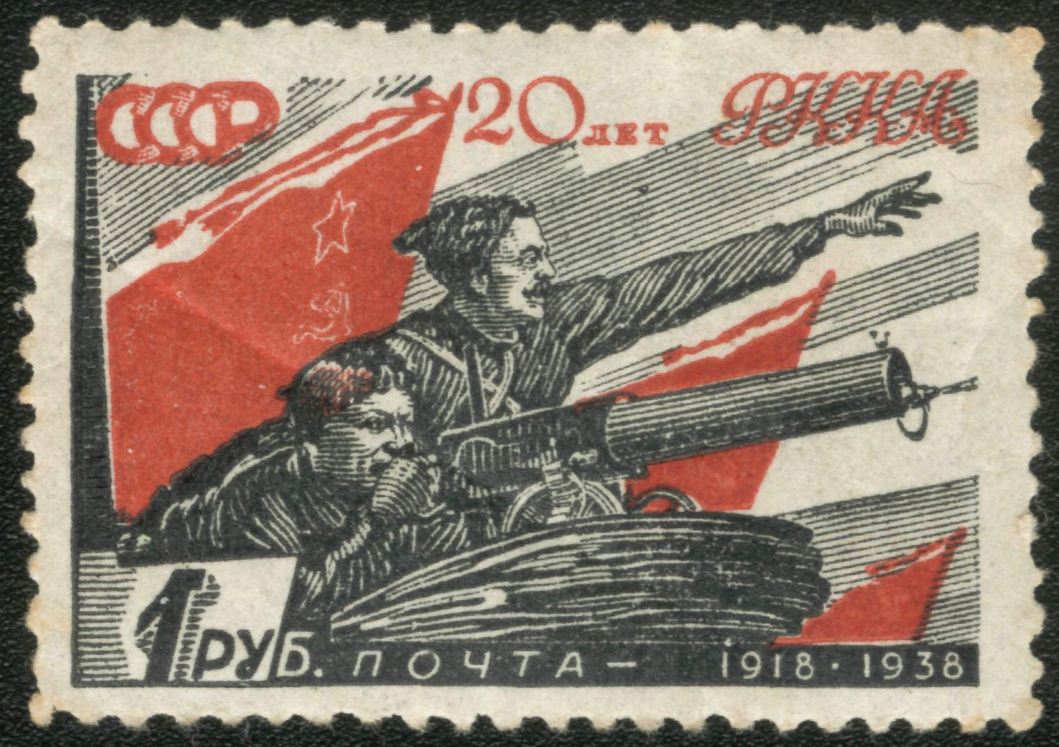 Soviet postal stamp of 1 ruble. XX anniversary of Red Army (1918-1938). Representing Vasily Chapayev